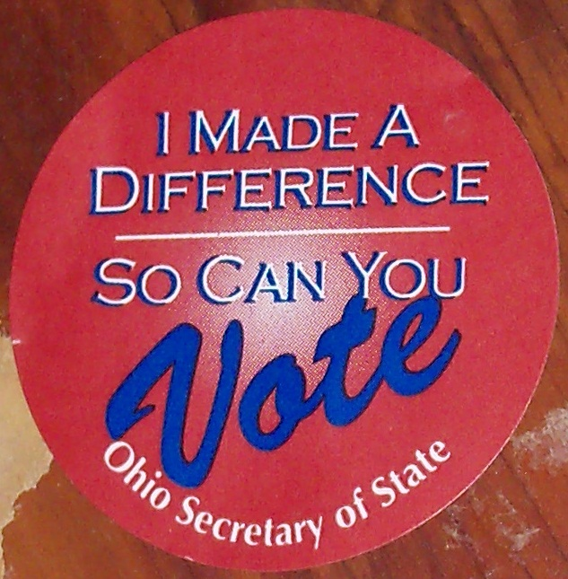 sticker passed out to voters by the Ohio Secretary of State